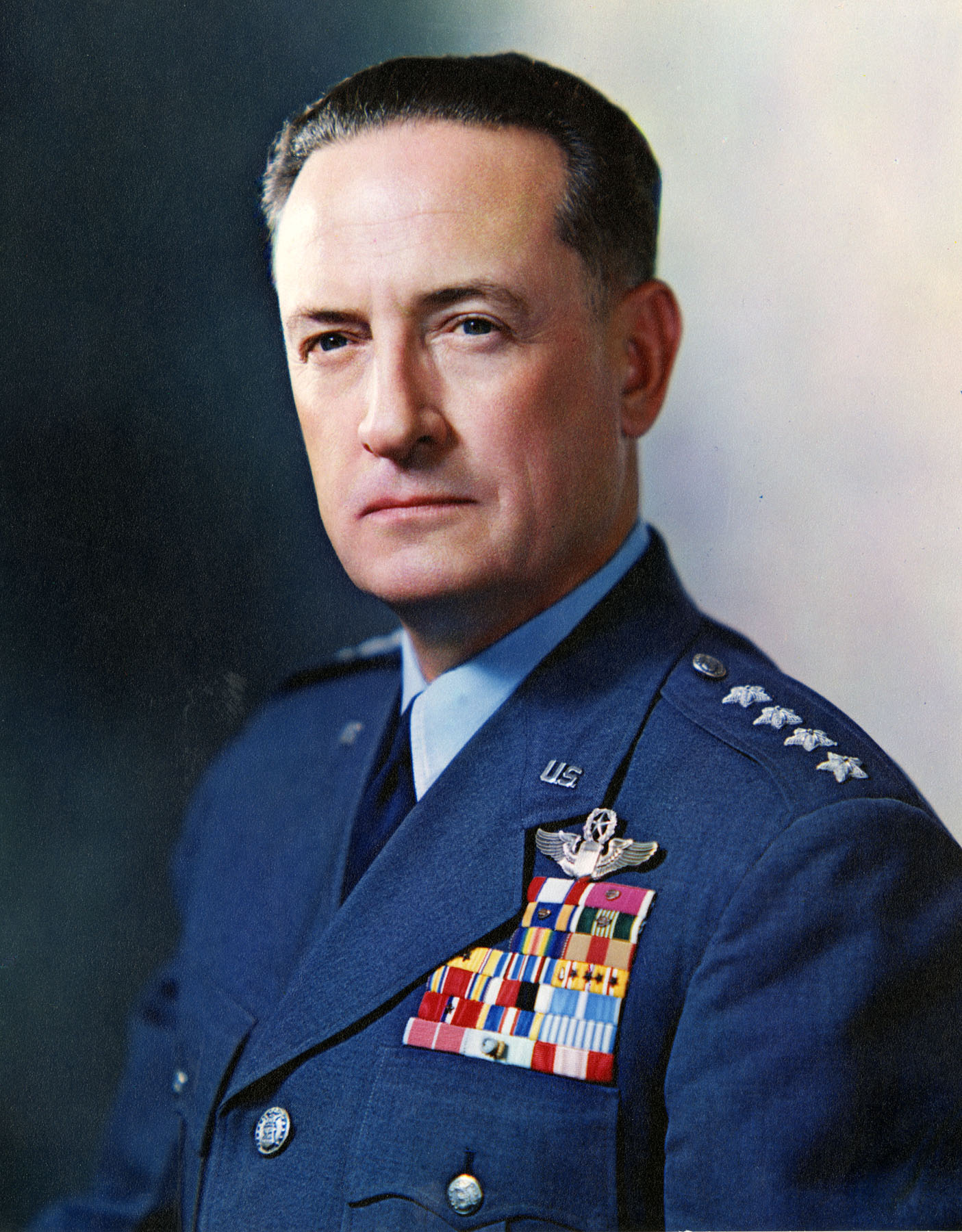 Gen. T. D. White, USAF